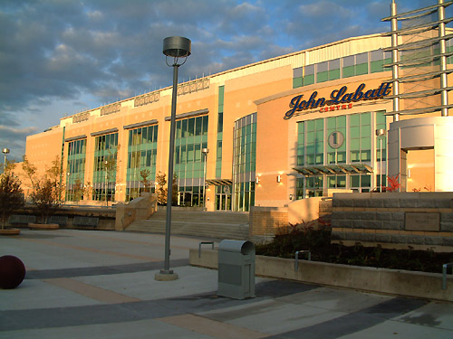 The main entrance (gate 1) of the John Labatt Centre in London, Ontario, Canada. Taken on October 23, 2002 2014: Now changed to the Budweiser Gardens